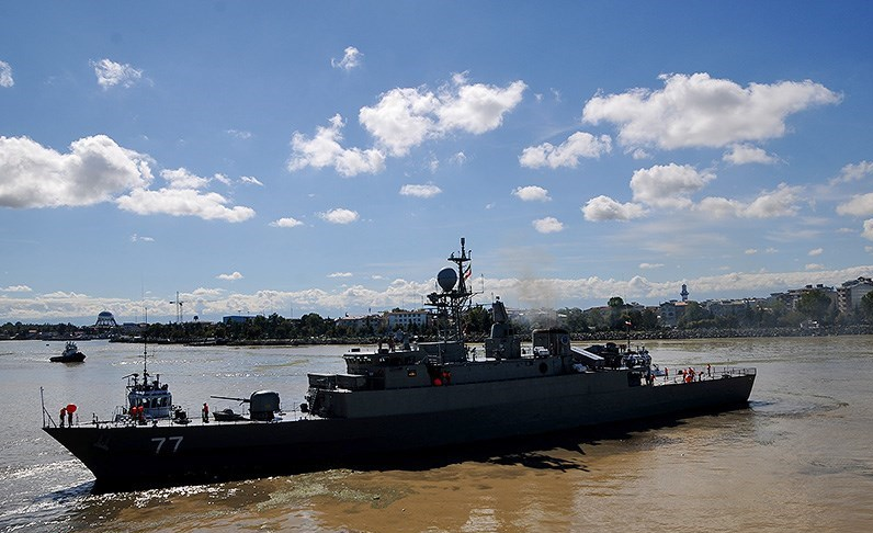 Navy of Iran